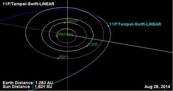 Illustration of comet 11P/Tempel-Swift-LINEAR's orbit during the next perihelion occurring in August 26, 2014.